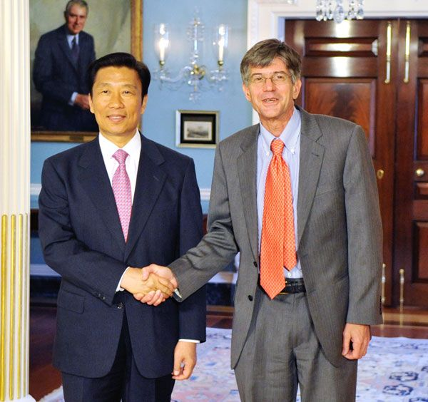 meeting between James Steinberg and Li Yuanchao at the US Department of State, Washington D.C.